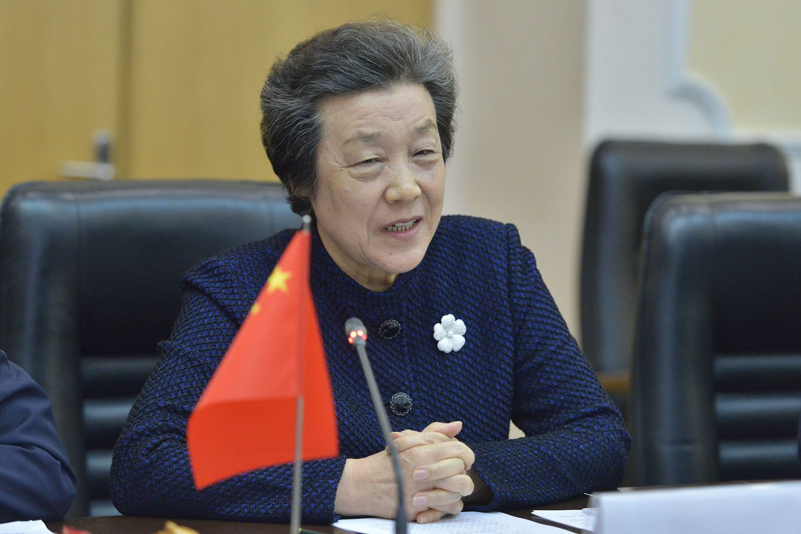 Wu Aiying, Minister of Justice of China, at Kiev, Ukraine, Oct. 31, 2016.